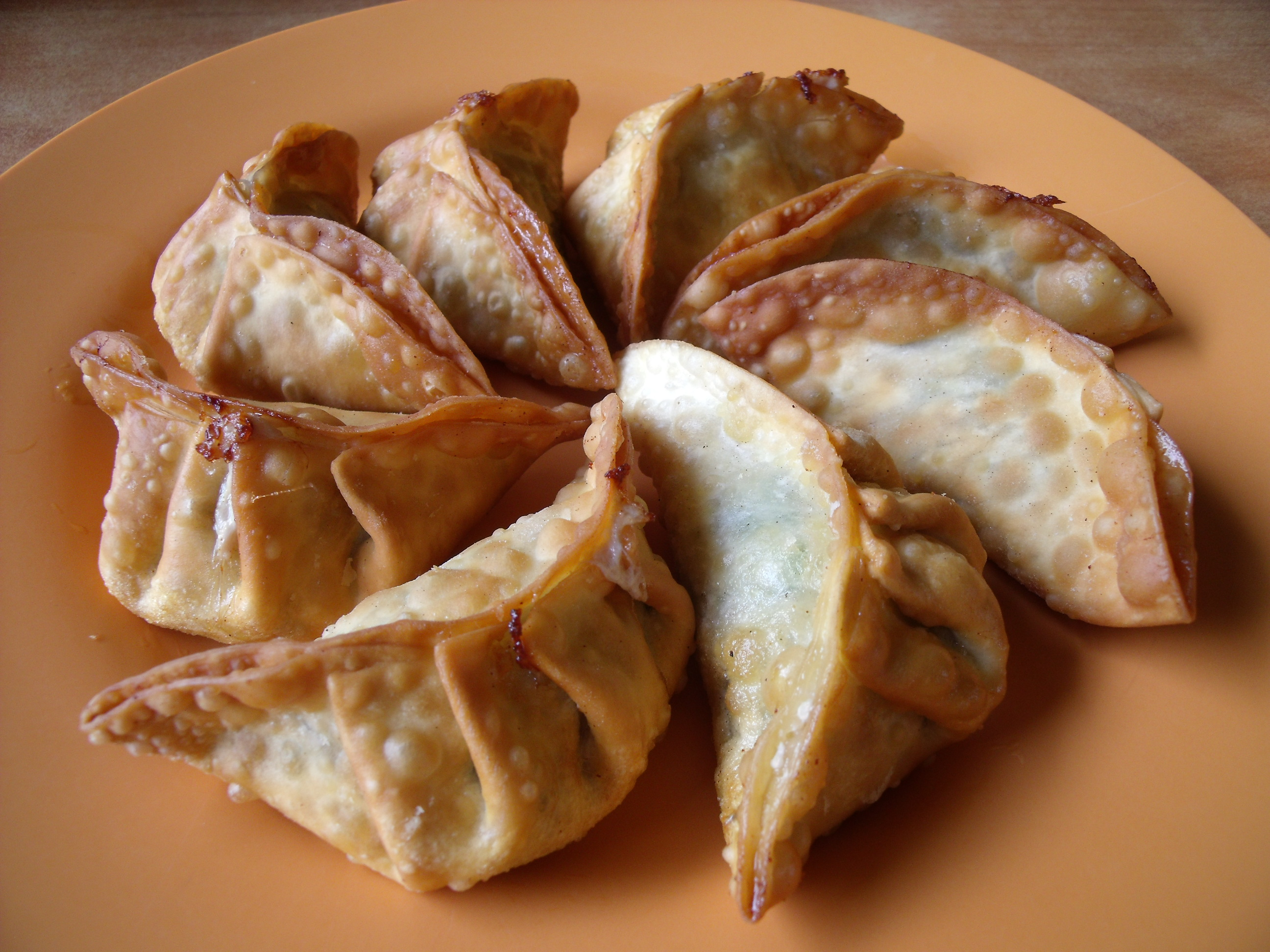 Fried dumplings at NUH food court.